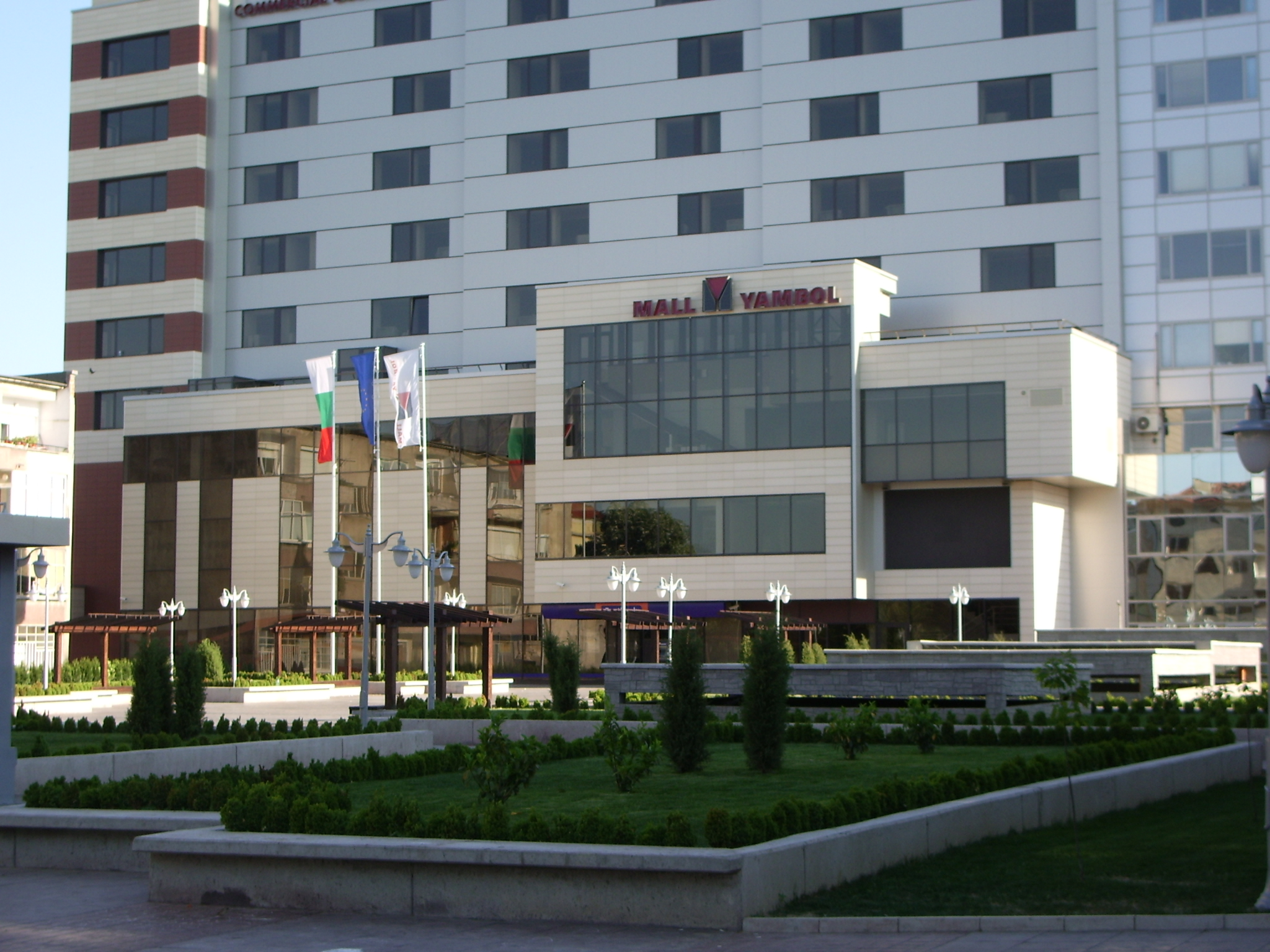 Mall of Yambol, Bulgaria